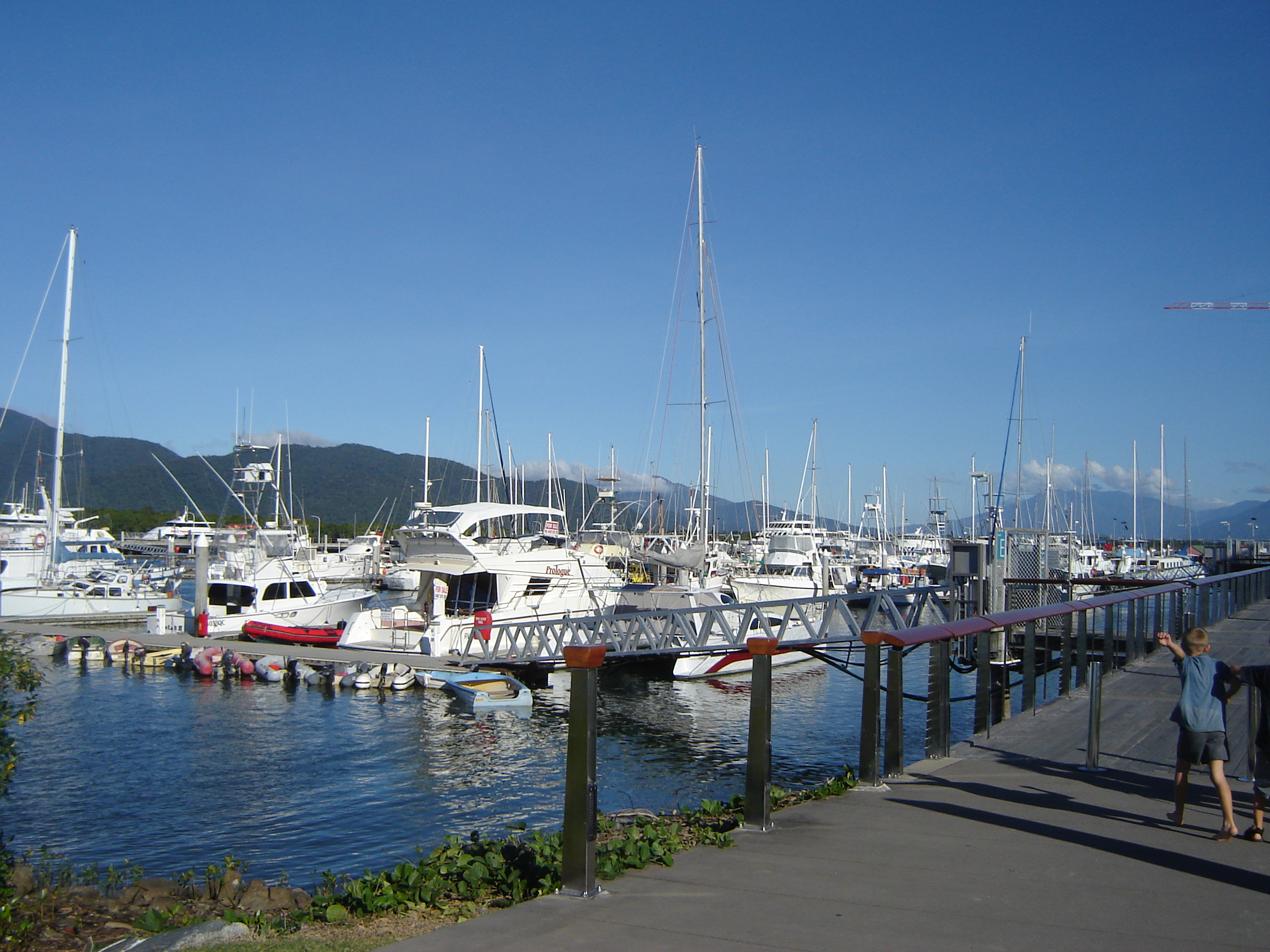 Cairns Marina. Photo taken by Frances76.